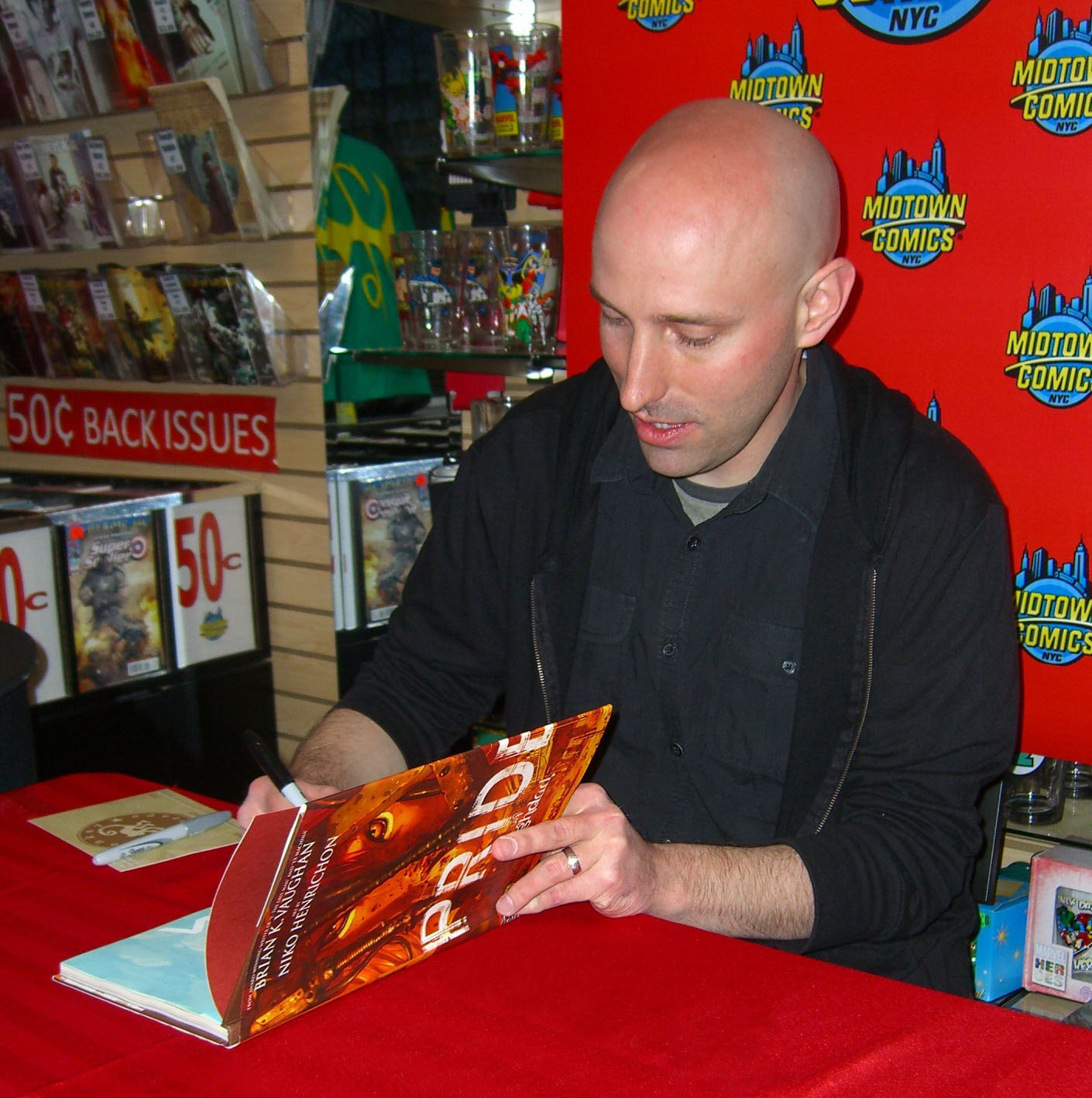 Comics and television writer Brian K. Vaughan at a March 15, 2012 signing for Saga #1 at Midtown Comics Downtown in Manhattan. In the photo, Vaughan is signing a copy of Pride of Baghdad, one of his previous works. This photo was created by Luigi Novi. It is not in the public domain, and use of this file outside of the licensing terms is a copyright violation.